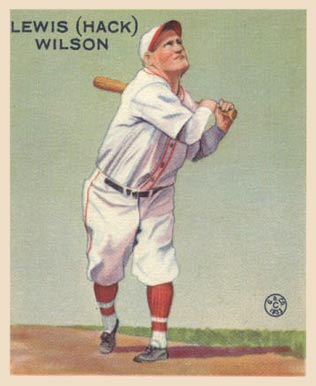 1933 Goudey baseball card of Hank Wilson of the Brooklyn Dodgers #211. PD-not-renewed.